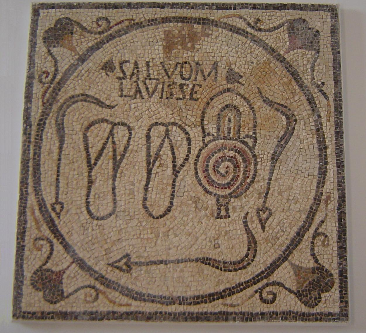 Mosaic from theater baths. Museum."Salvom Lavisse" - "Washing it's well!". Sabratha, Libya.